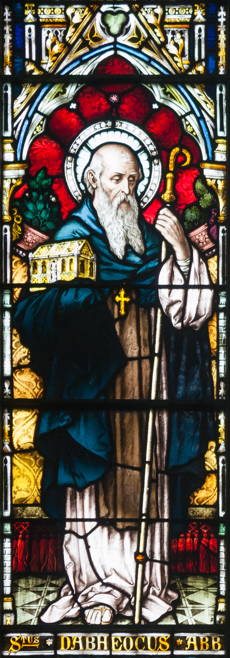 Left light of the second west-most stained glass window in the south wall of the south aisle, depicting the Clogher saint Dobheóg (written Dabheocus, first abbot at Lough Derg). Created by Franz Mayer & Co.